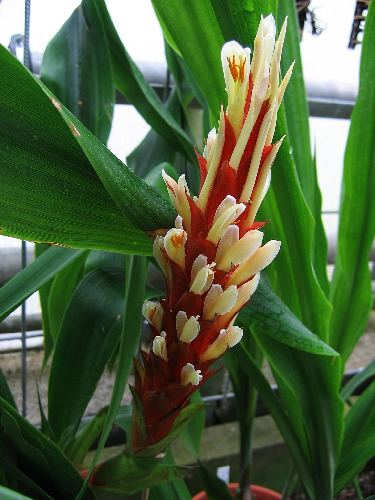 Pitcairnia imbricata, in cultivation at the Botanical Garden of Heidelberg, Germany.